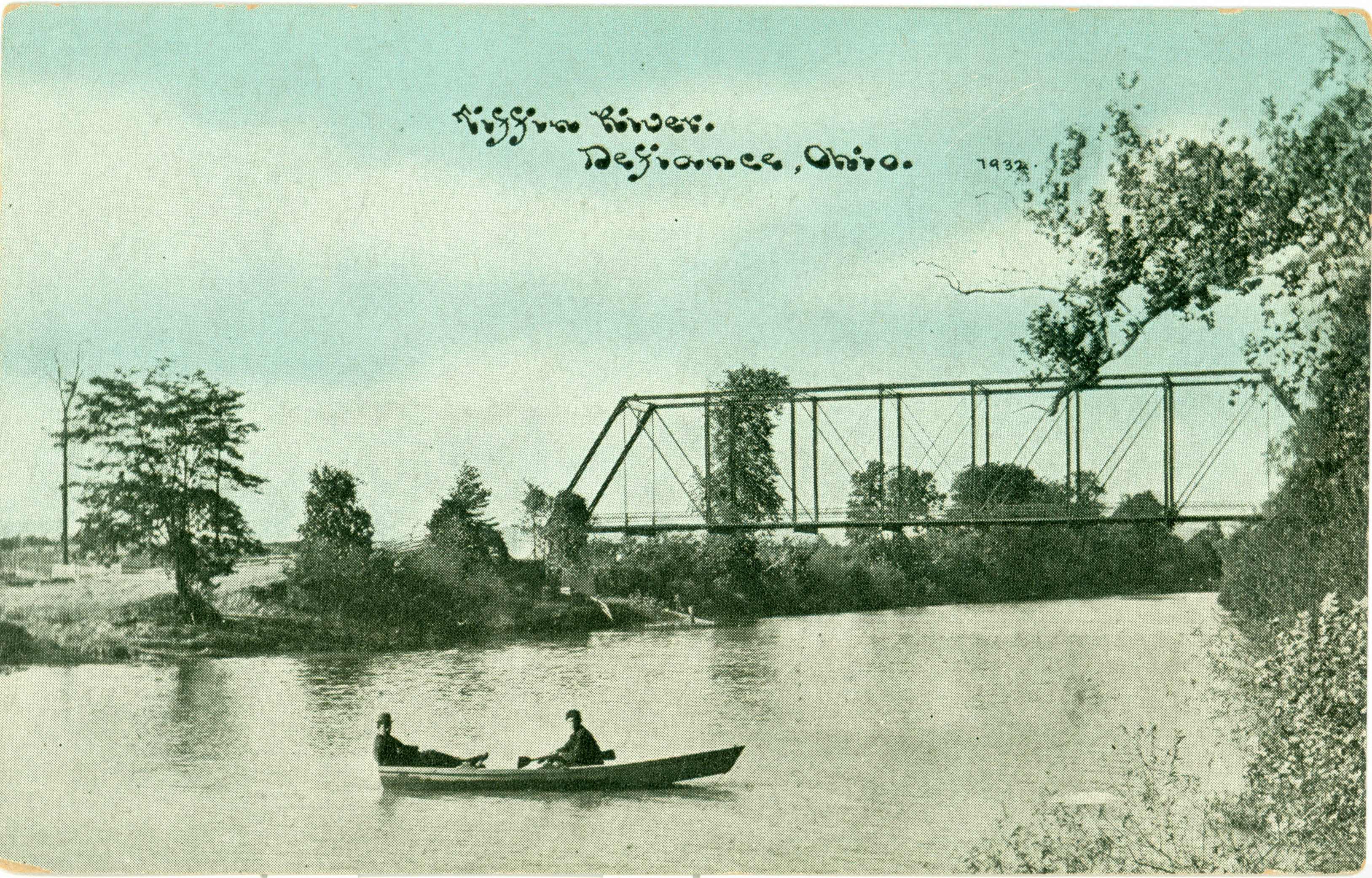 Side of the Dey Road Bridge, which carries Dey Road over the Tiffin River west of Defiance in Noble Township, Defiance County, Ohio, United States. Built in 1906, it is listed on the National Register of Historic Places.